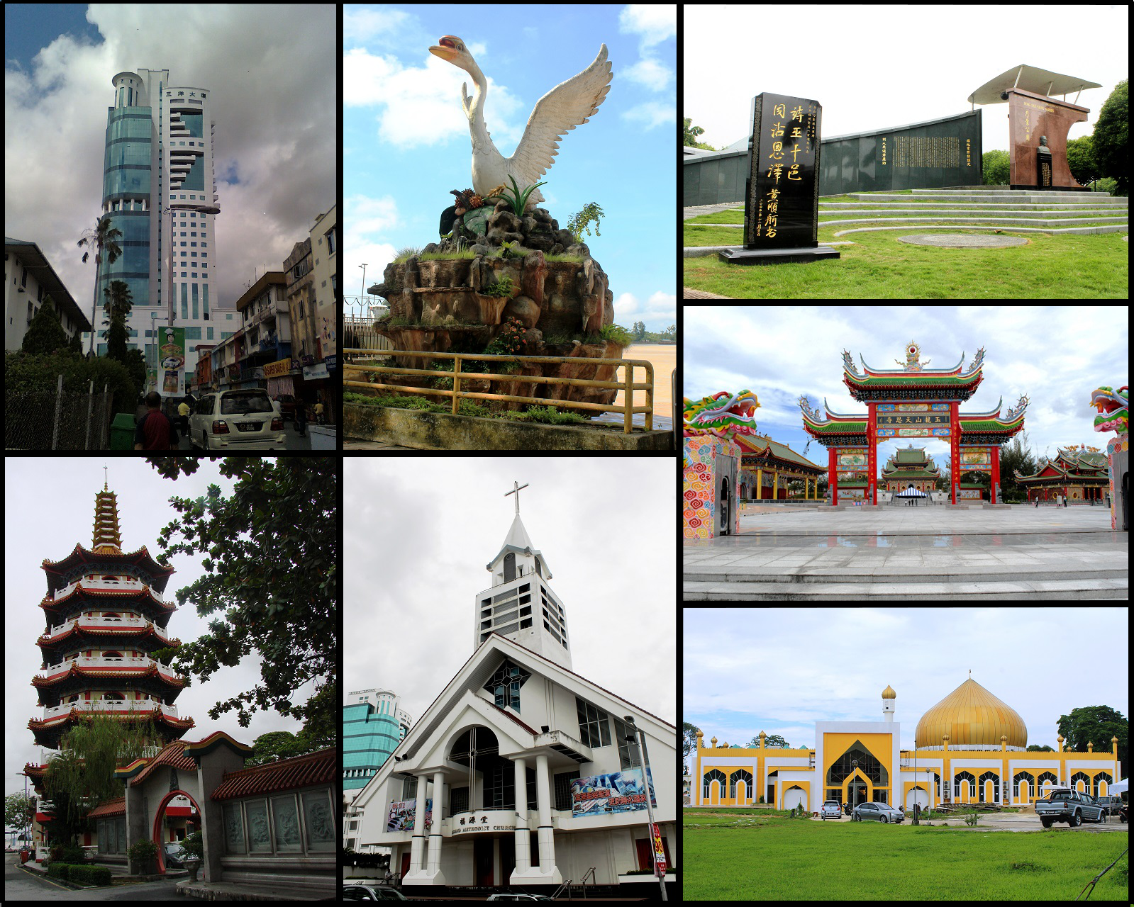 A composite image of major attractions in the town of Sibu. Clockwise from top right: Wong Nai Siong Memorial Garden, Jade Dragon Temple, An-Nur Mosque, Masland Methodist church, Tua Pek Kong Temple, Wisma Sanyan, and swan statue.